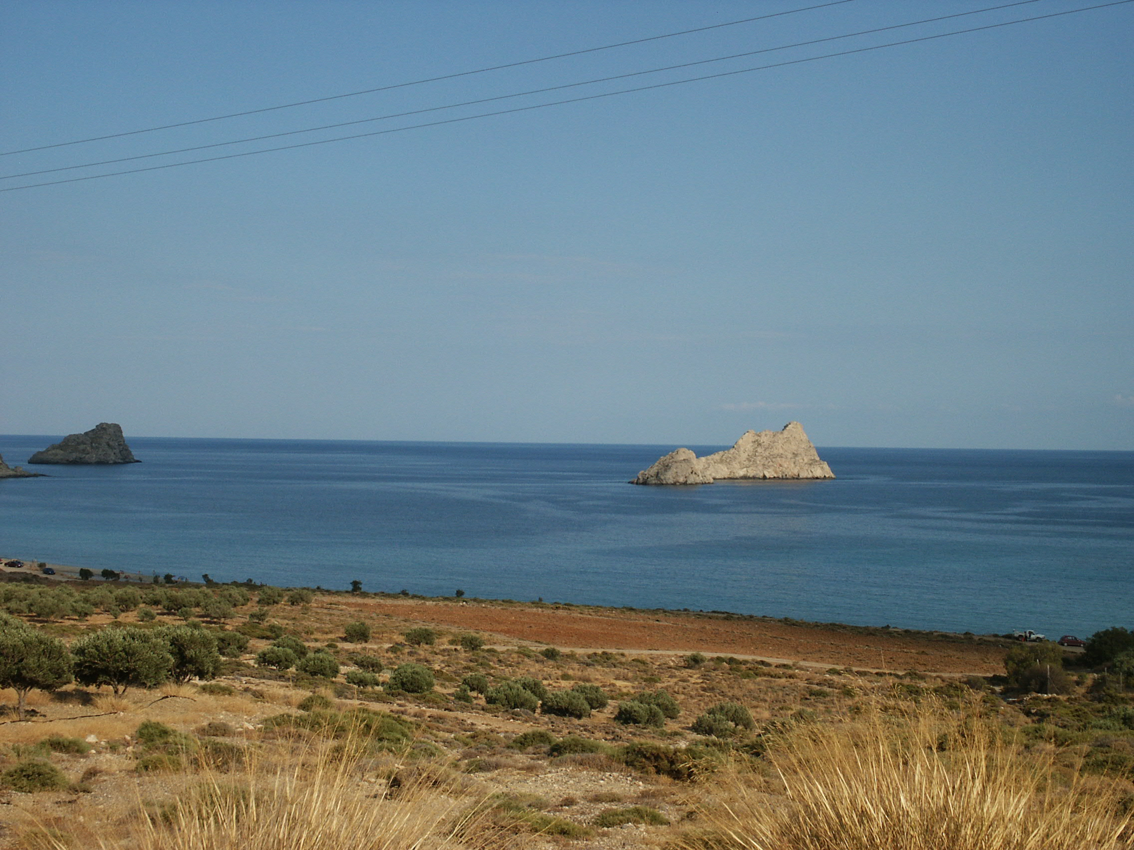 Kavali islands, Lasithi, Crete, Greece